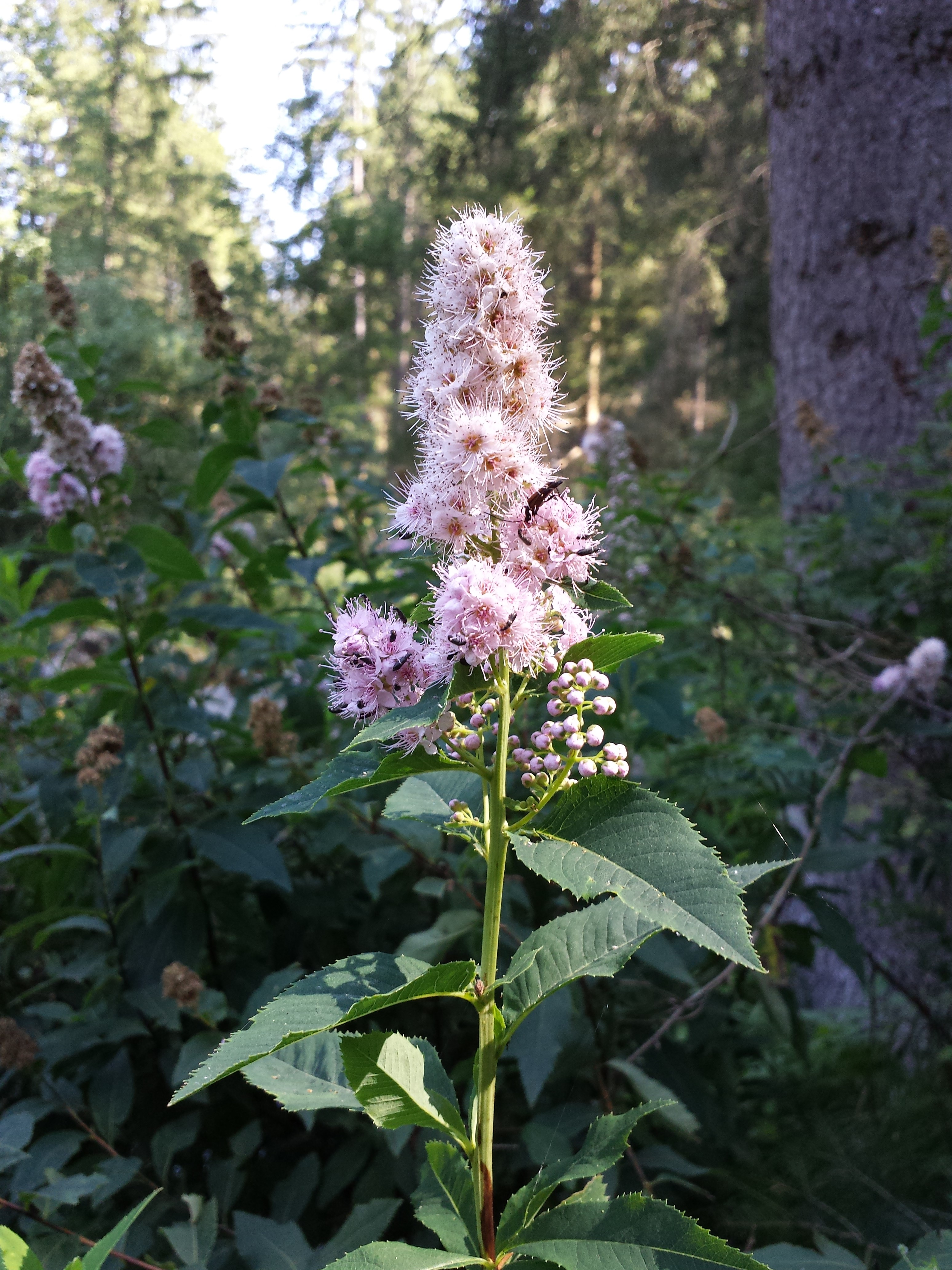 Florescence Taxon: Spiraea salicifolia (sensu Fischer et al. EfÖLS 2008) Location: Kamp river near Rappottenstein, district Zwettl, Lower Austria - ca. 650 m a.s.l. Habitat: shrubbery next to a river bank